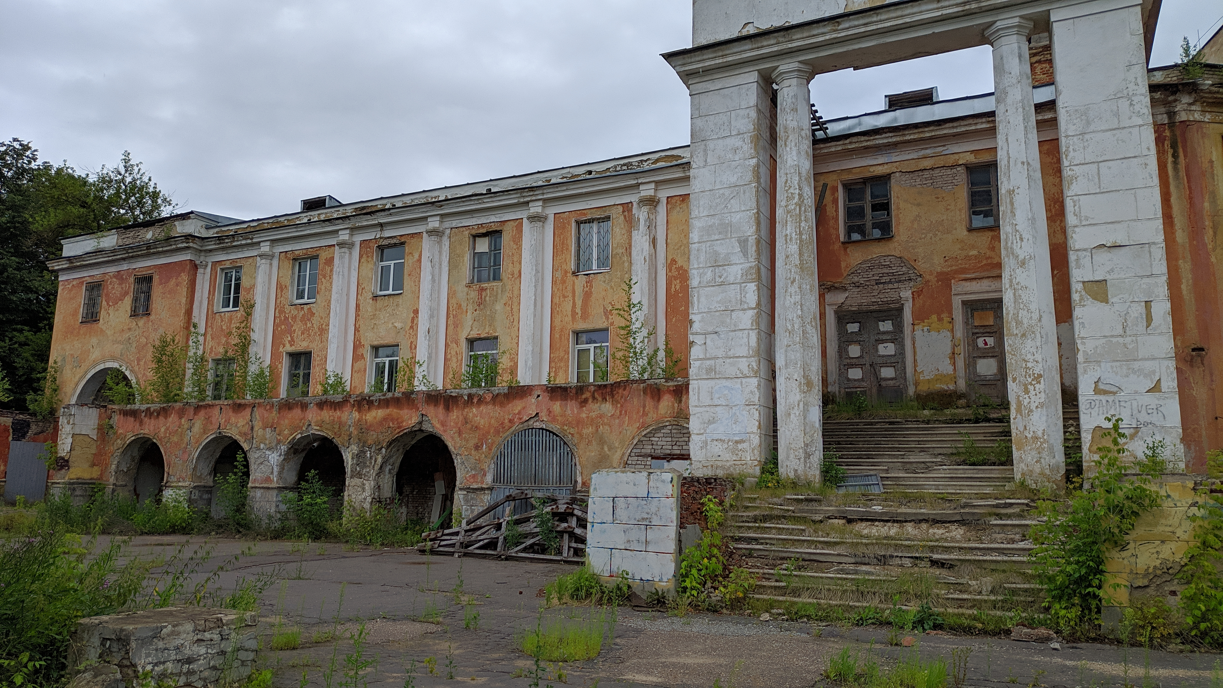 Current state of the Tver river terminal's building as seen on June 29th 2019 (Tver, Russia)